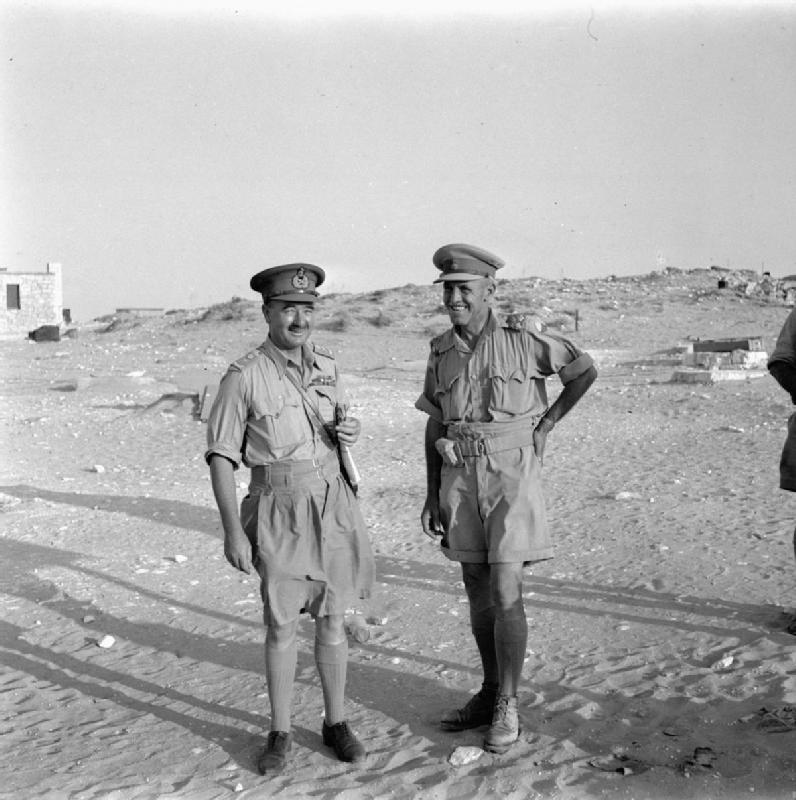 Senior Staff Officers Visit Headquarters, South African Brigade at El Alamein, July 1942 General Sir Leslie Morshead (left), commander of the Australian 9th Division in North Africa, with Brigadier Palmer of the 3rd Brigade. Later General Morshead commanded Australian forces in New Guinea and Borneo.